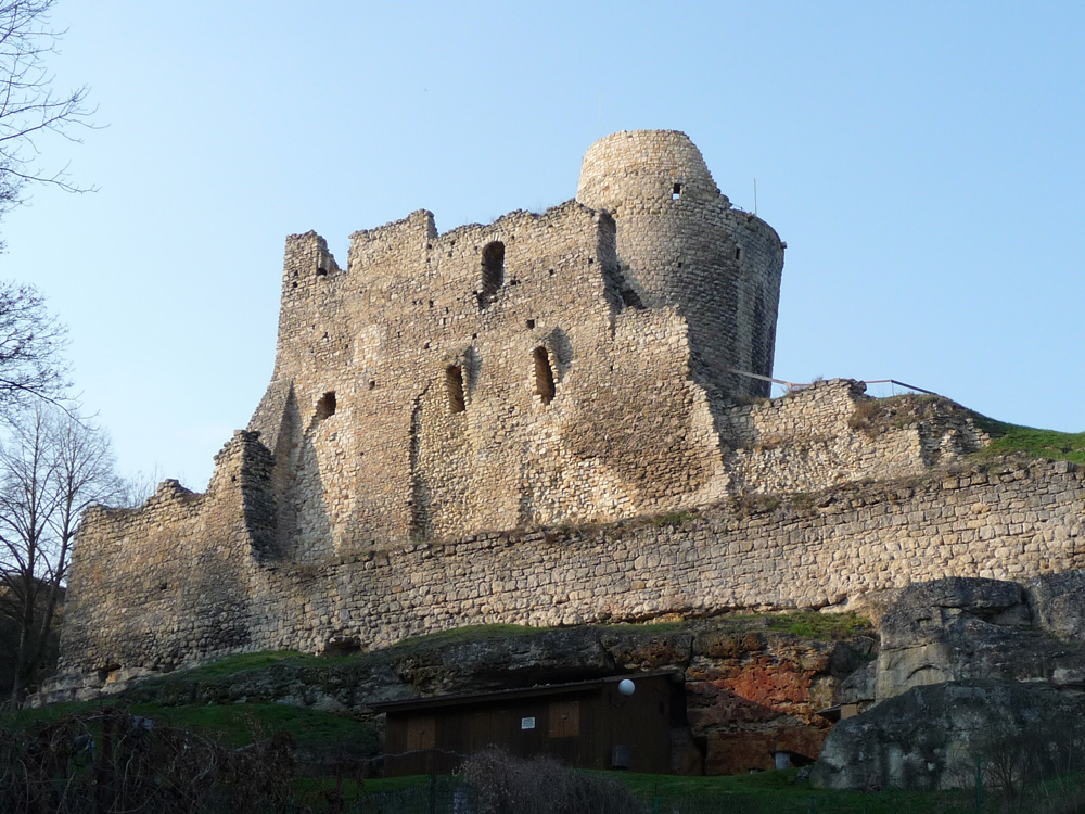 Michalovice Castle, Czech Republic